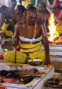 Priest performing Yagnya as part of Kumbhaabhishekam at Gunjanarasimhaswamy temple